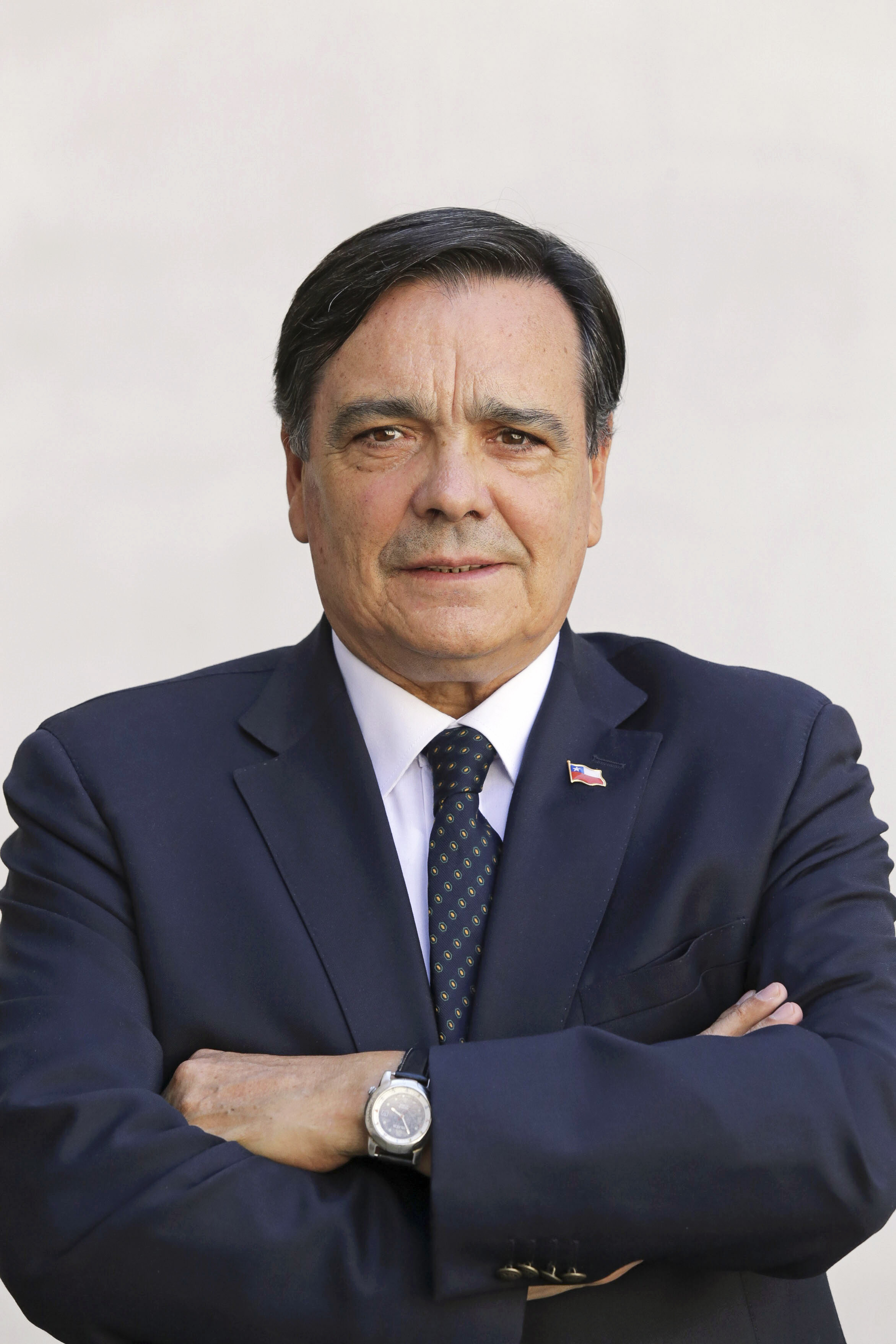 Carlos Ortega Bahamondes